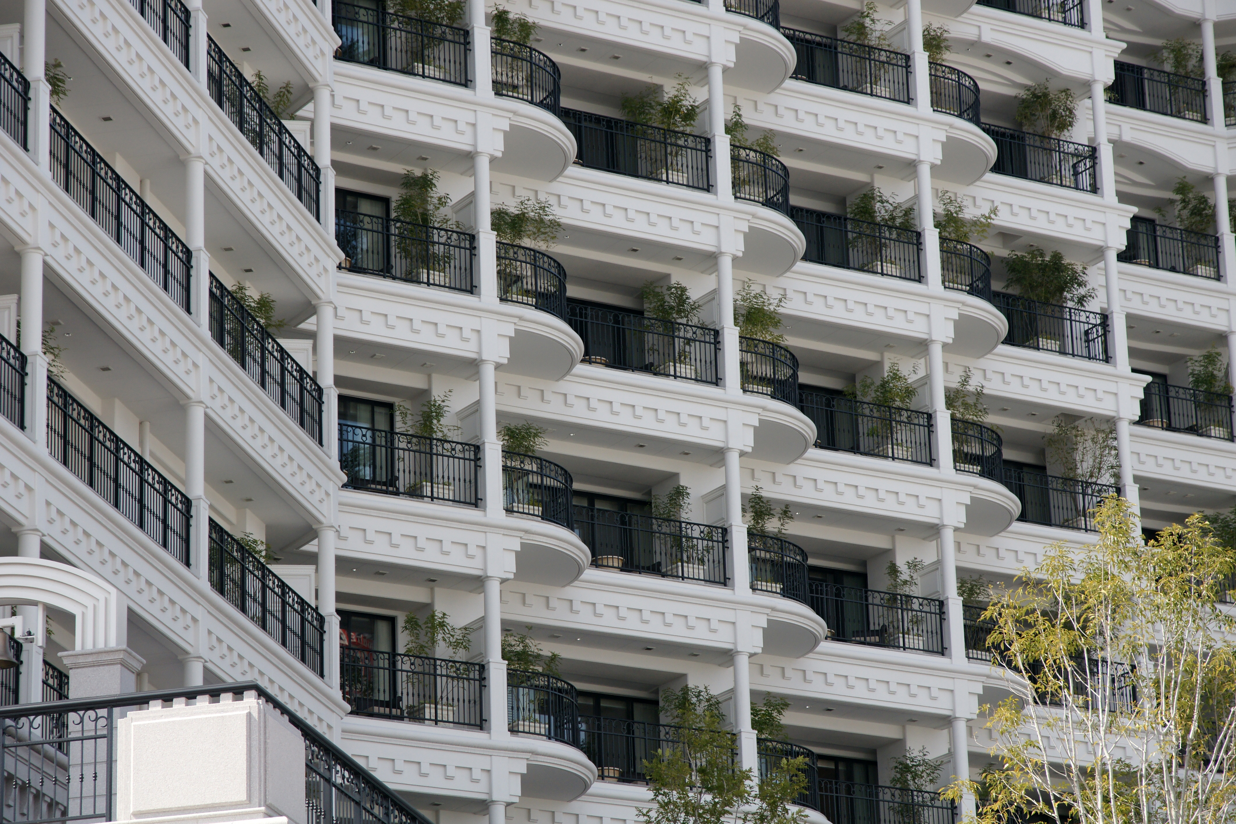 HOTEL LA SUITE KOBE HARBORLAND, Kobe, Hyogo prefecture, Japan